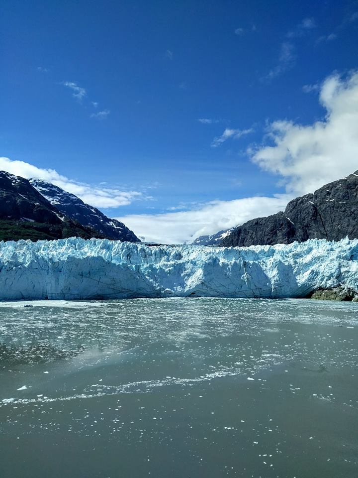 Margerie Glacier, Glacier Bay National Park, Alaska